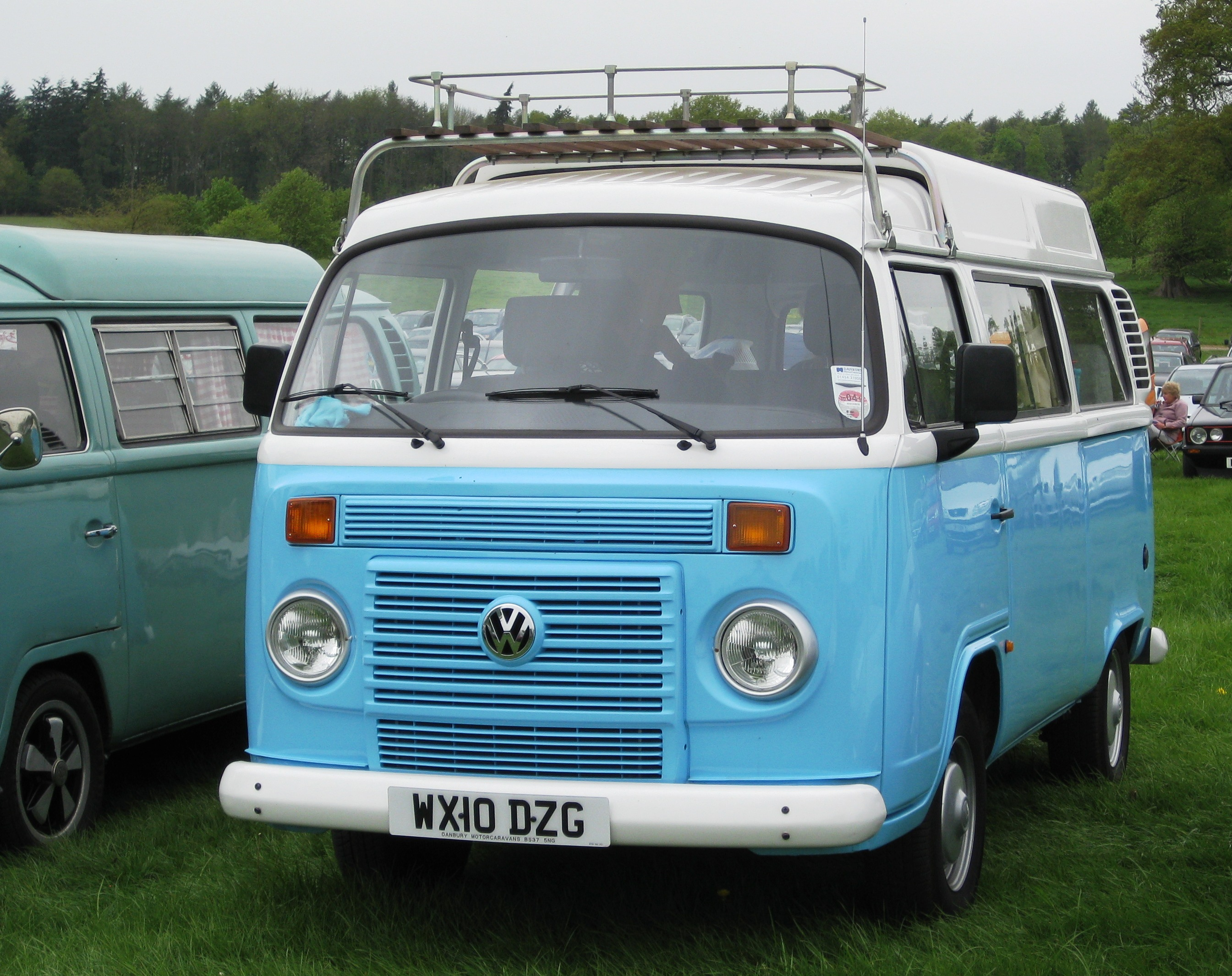 The Volkswagen Type 2 lives on, now with a water cooled motor and manufactured by Volkswagen of Brazil